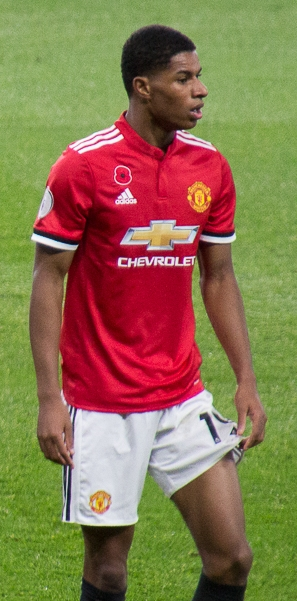 Marcus Rashford playing for Manchester United against Chelsea at Stamford Bridge, London on 5 November 2017